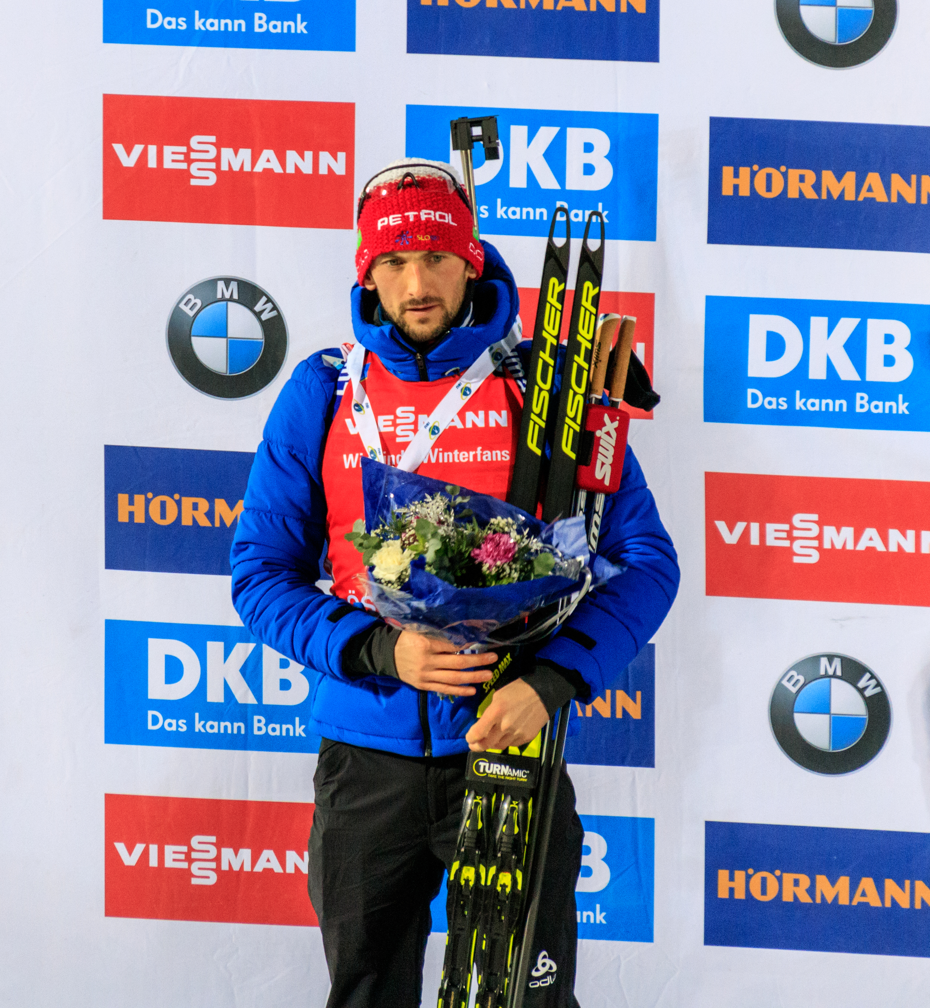 Jakov Fak in Östersund 2017